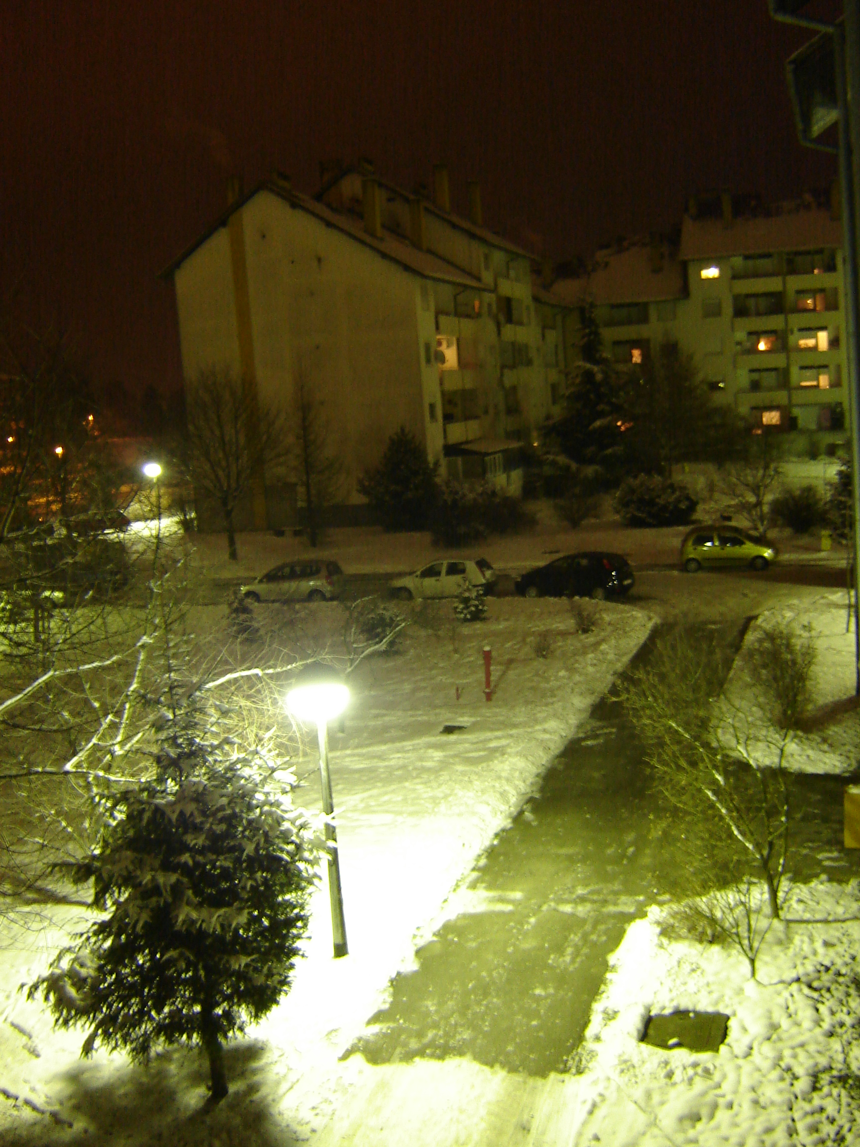 Winter night in Jug in the south part of Čakovec, Croatia